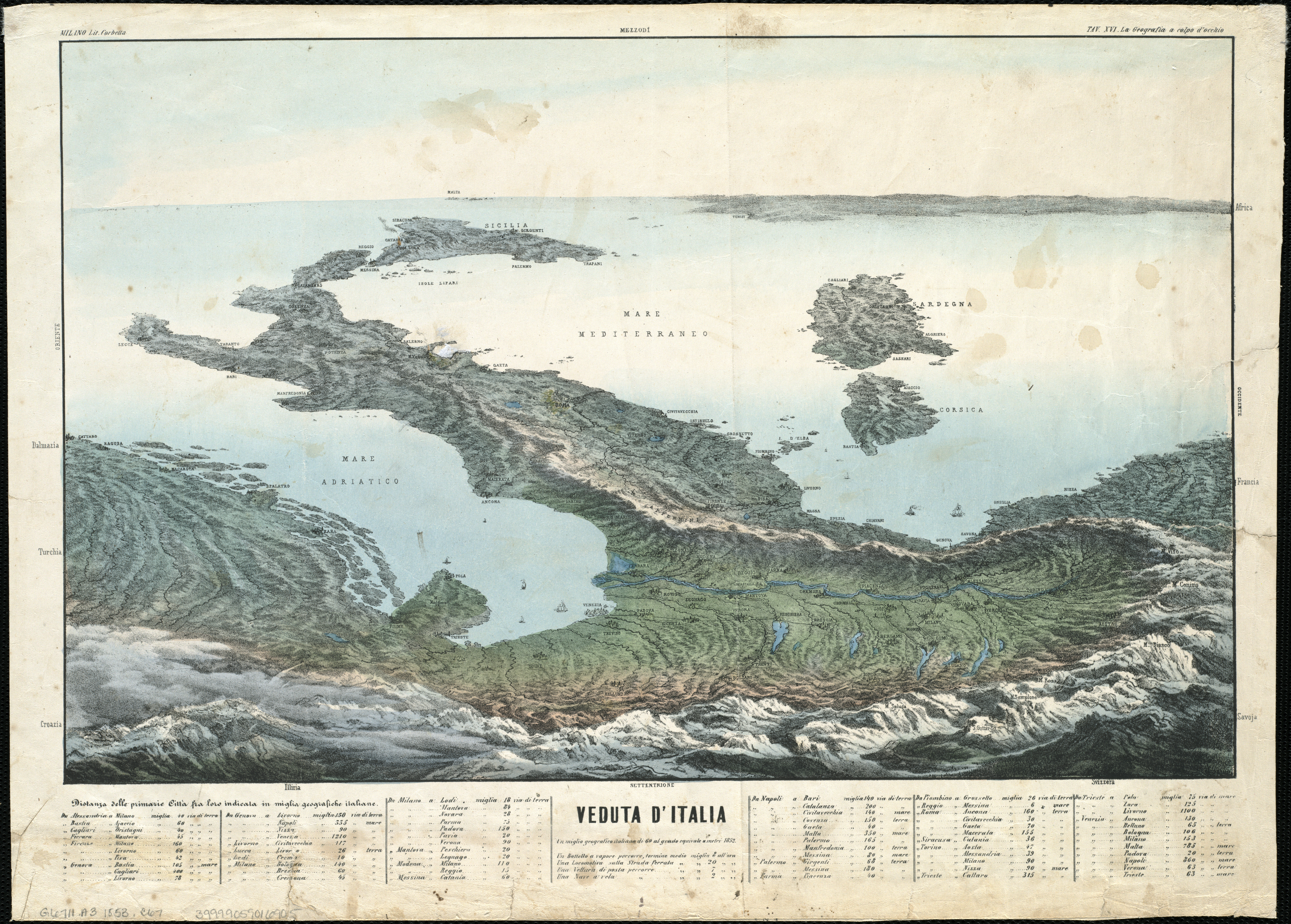 Zoom into this map at . Author: Corbetta, F. Date: 1853 Location: Italy Dimension: 27 x 42 cm Scale: Not drawn to scale Call Number: G6711.A3 1870